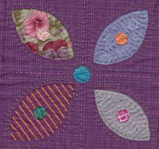 Detail of Quilt block of a flower in applique and reverse applique